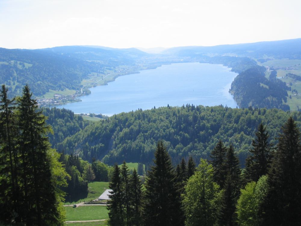 Lac de Joux, Vaud, Switzerland. Picture taken by User:Crox from La Dent De Vaulion on 2004-05-29 at 15:18.